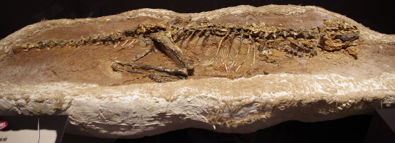 _IGP9947 国立科学博物館「恐竜博2011」。Haplocheirus。